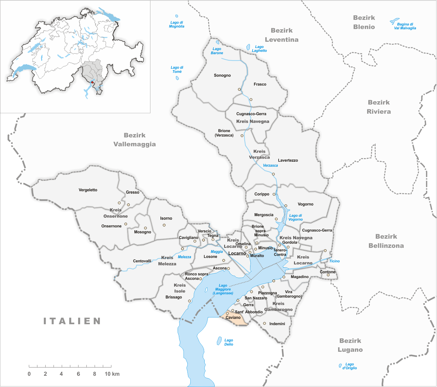 Municipality Caviano Artist: Tschubby